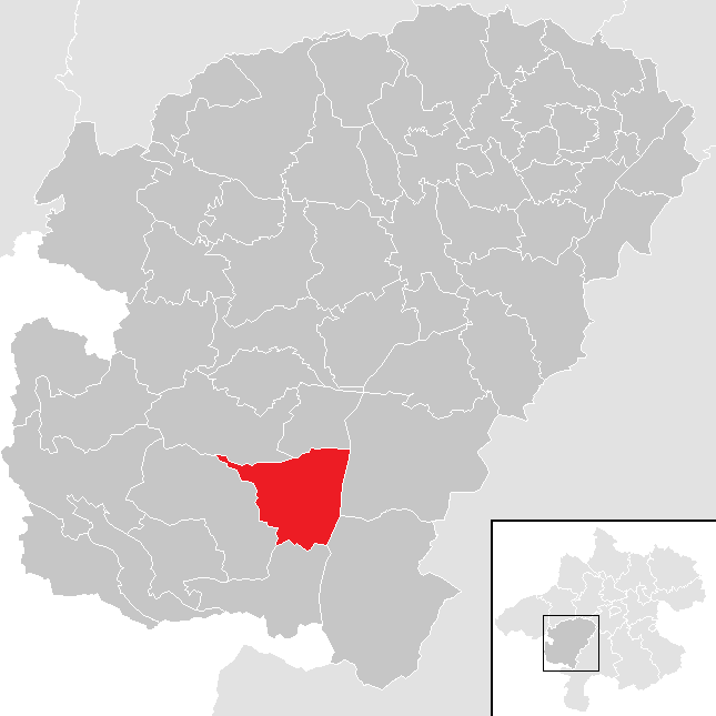 District Vöcklabruck